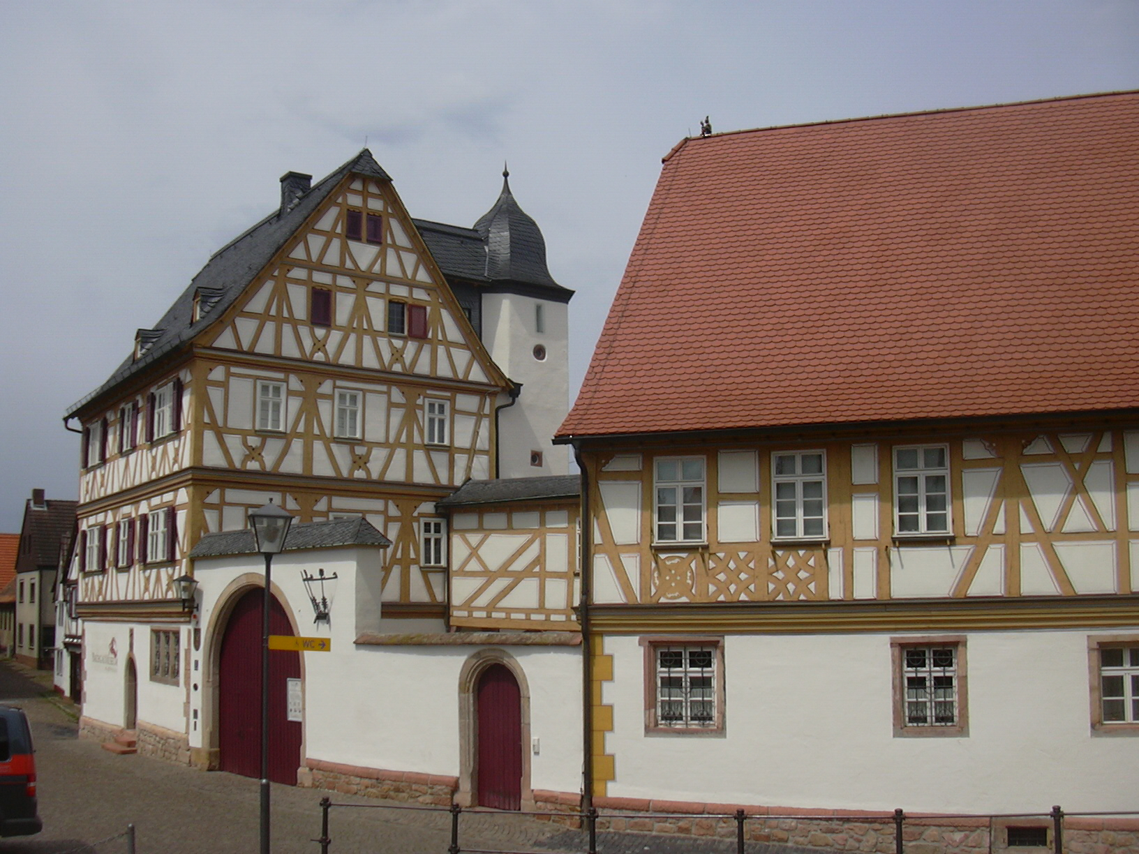 Nöthig-Gut, Großostheim, former episcopal court, 1537-1629, now regional museum, Bavaria/Germany